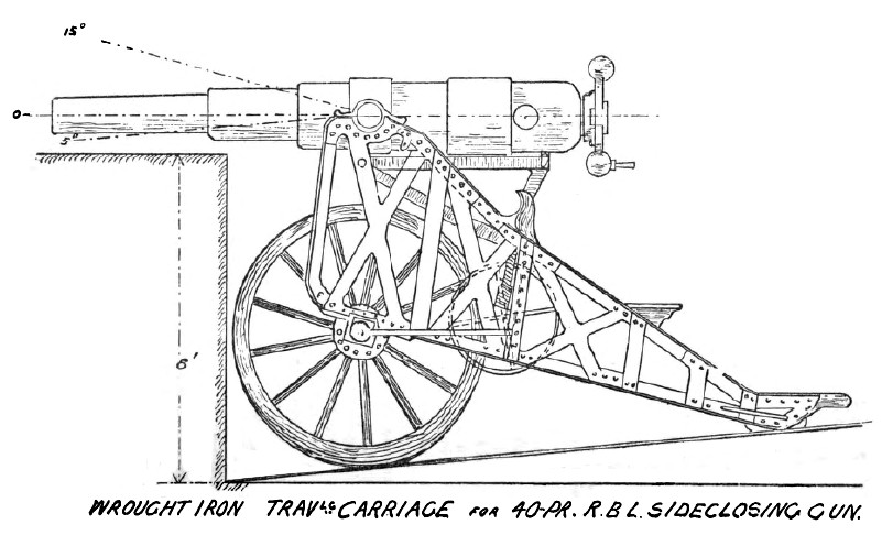 Diagram shown RBL 40 pounder sideclosing gun on garrison travelling carriage.